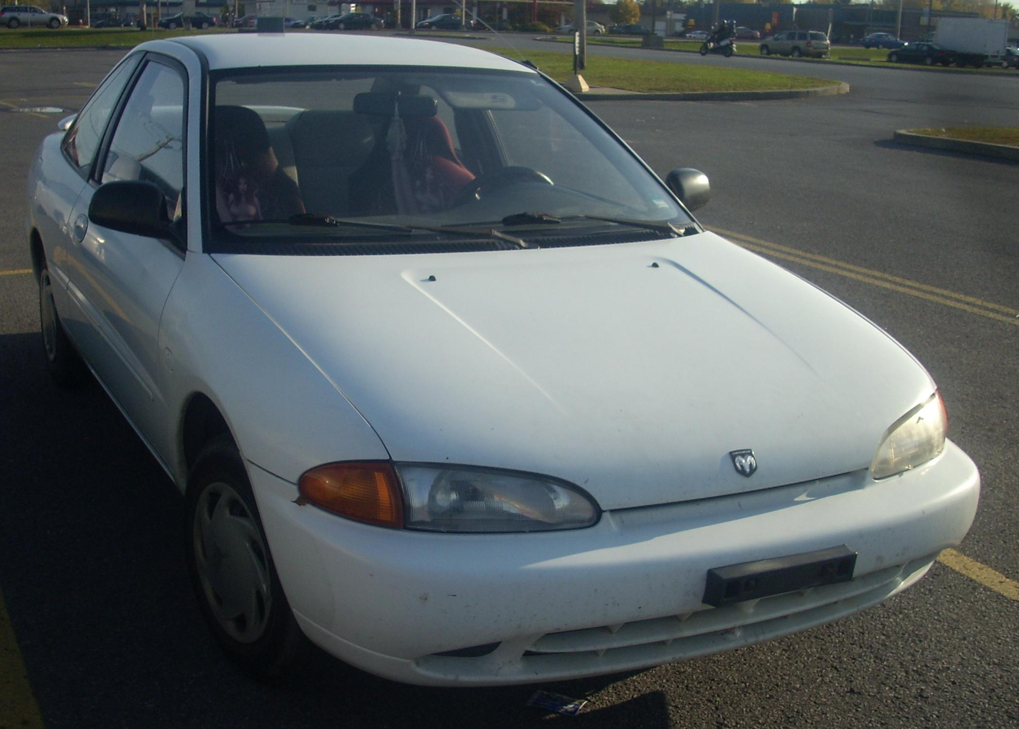 1993-1994 Dodge Colt photographed in Vaudreuil-Dorion, Quebec, Canada.